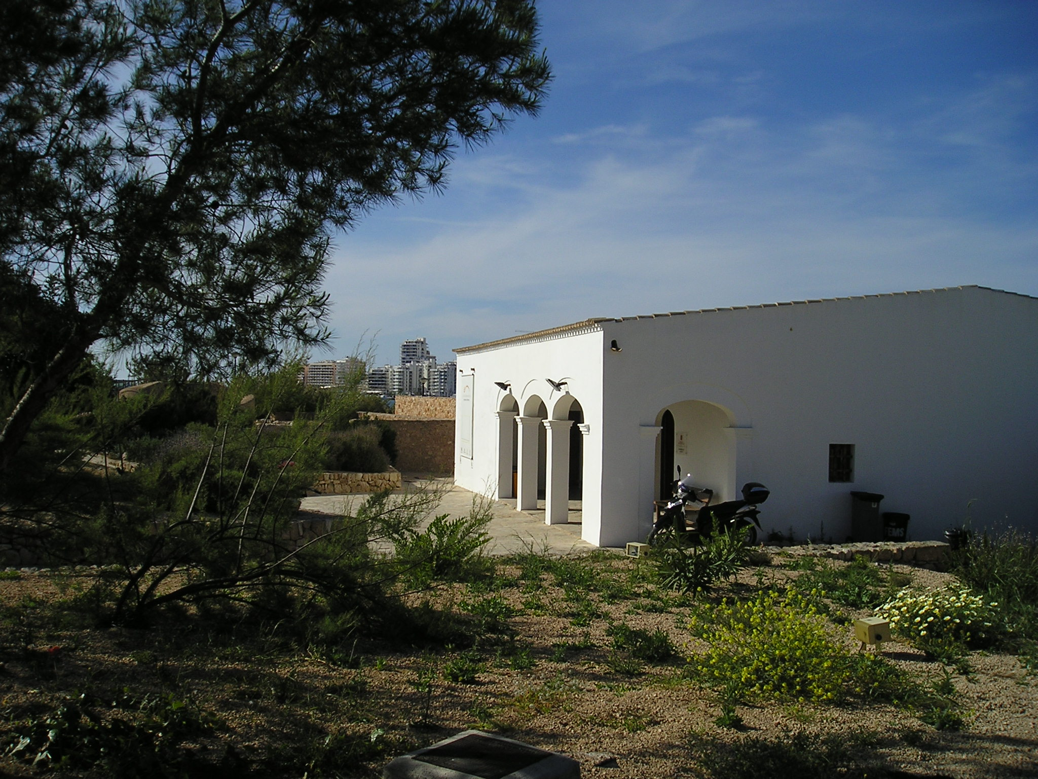 Punta des Moli, Sant Antoni de Portmany, Ibiza. Here lived Walter Benjamin in the 30-ies, when staying in Ibiza.